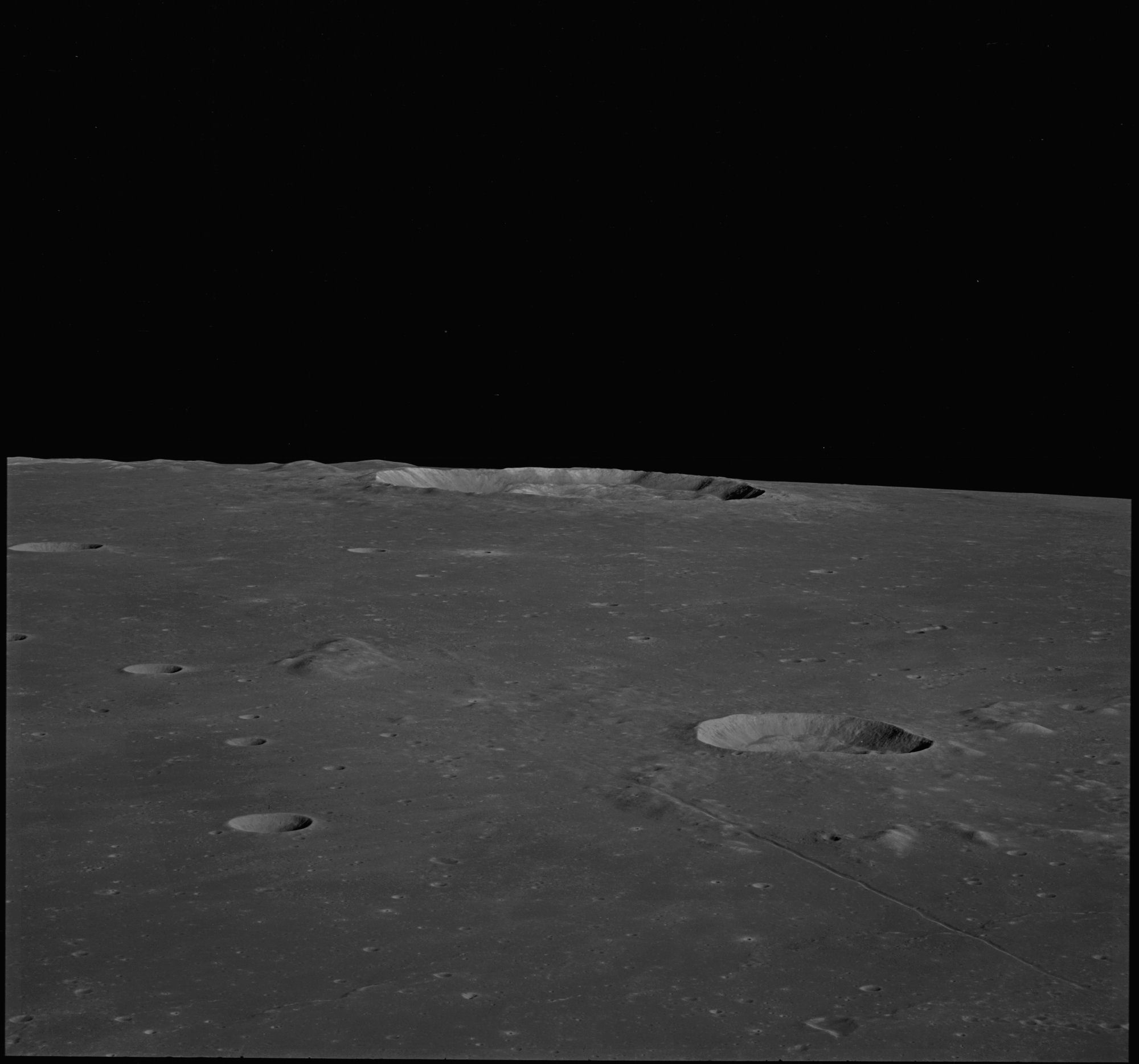 Apollo 10 AS10-31-4599, Carrel with Plinius on the horizon.